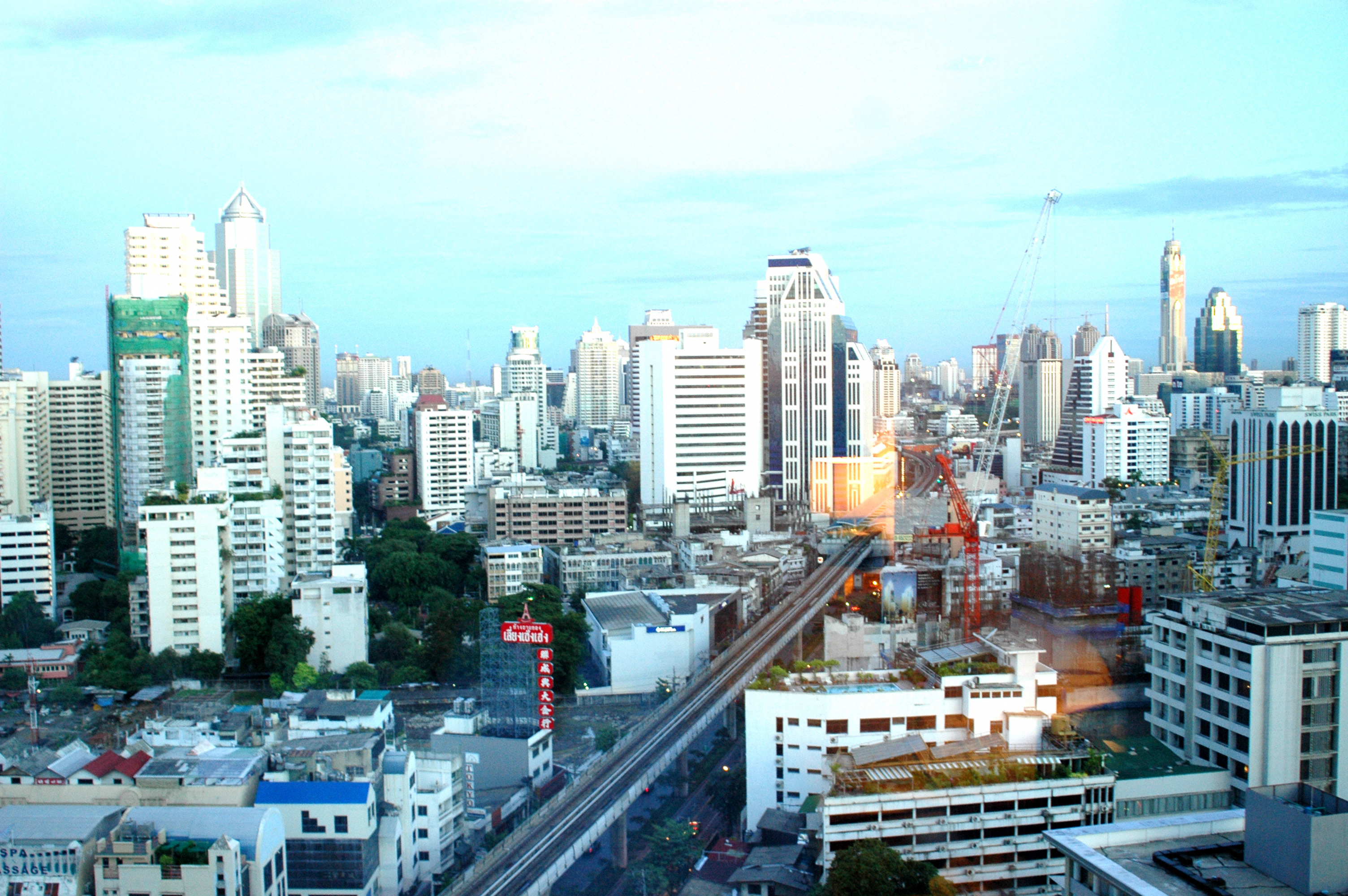 The_Sukhumvit_area_Photo_D_Ramey_Logan